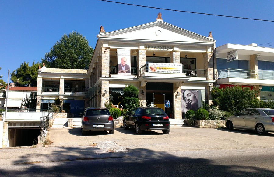 katastimata